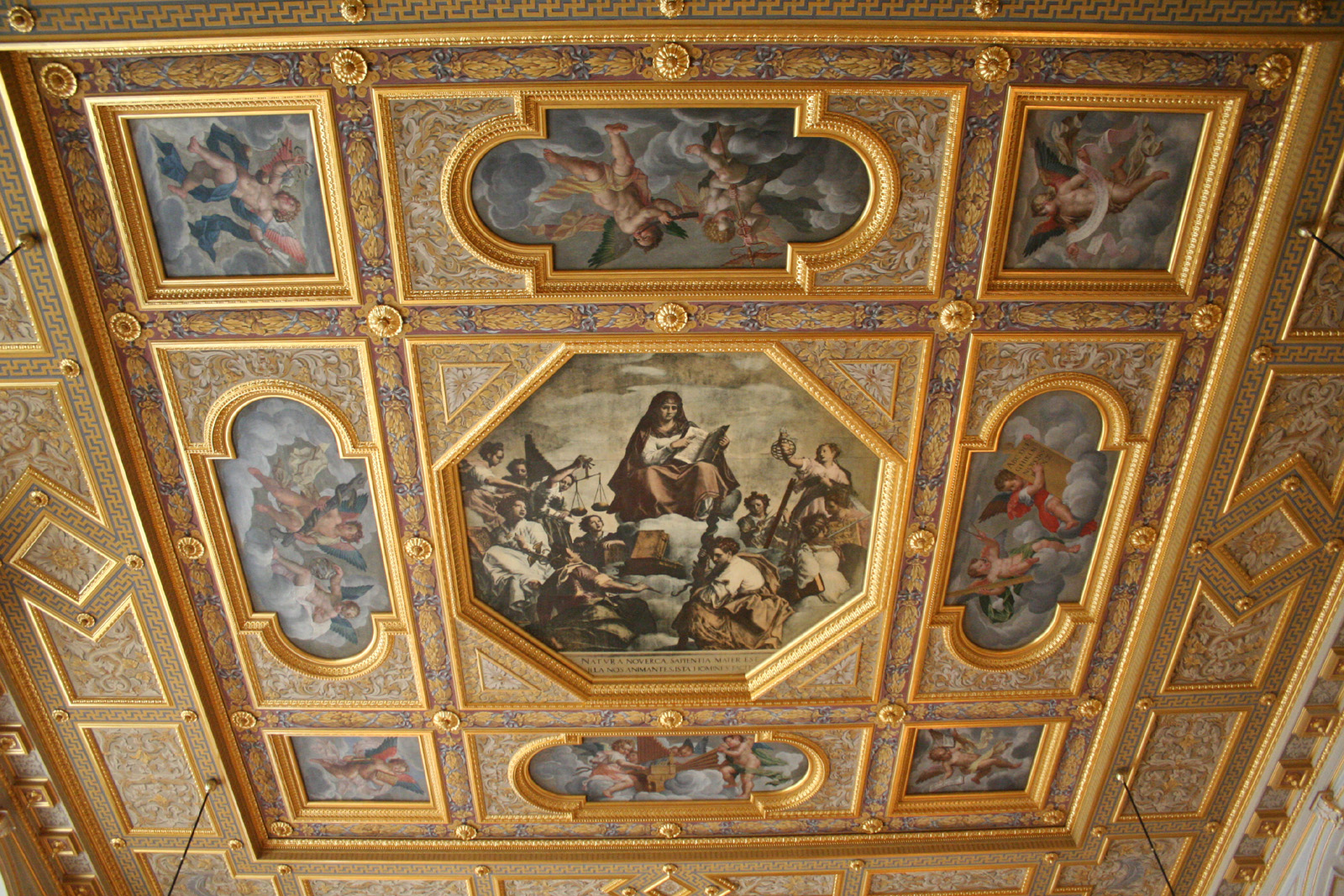 Ceiling of the Emperor's Hall in the Munich Residency, depicting an allegory of wisdom in the central panel.